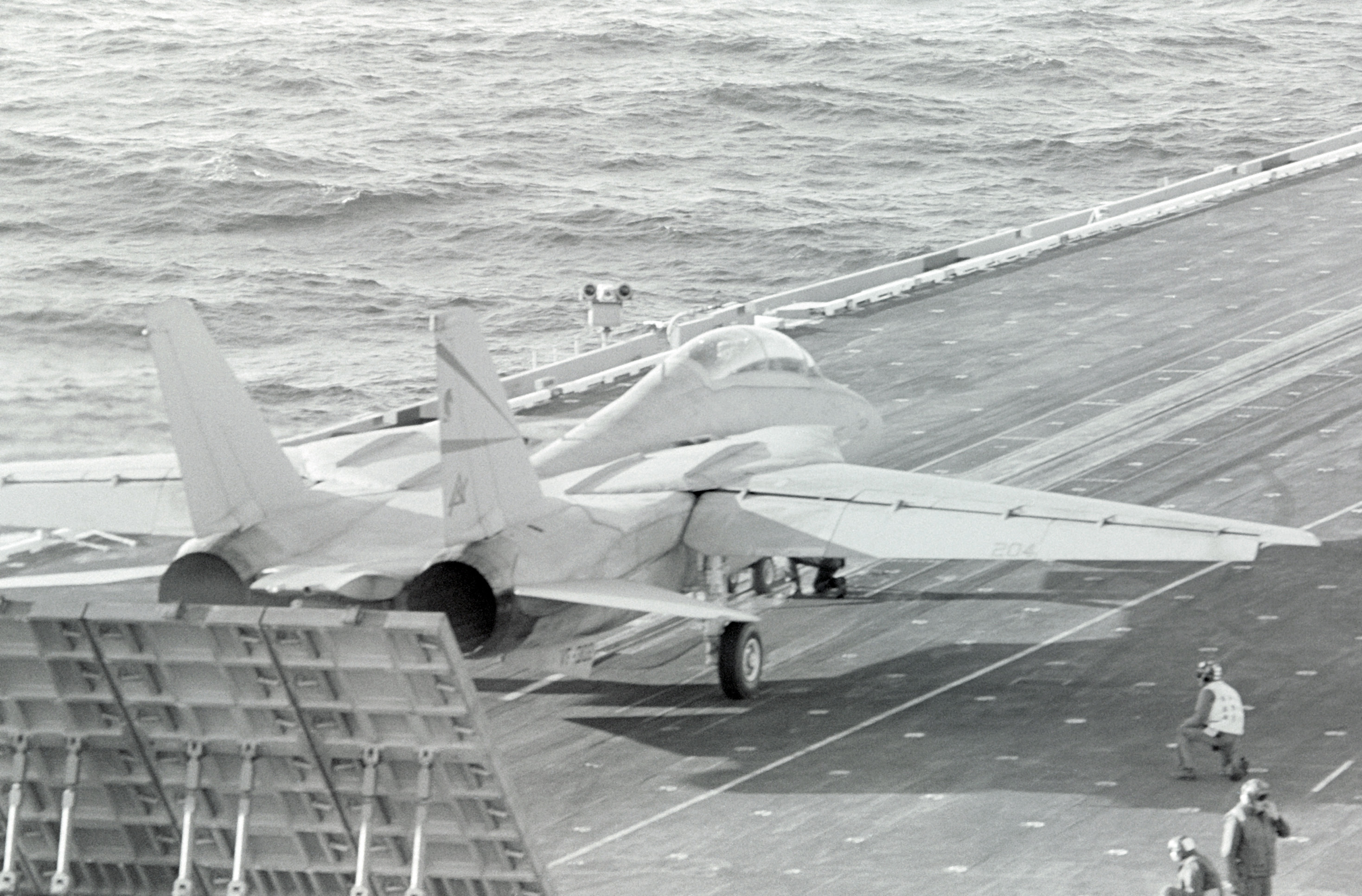 A U.S. Naval Air Reserve Grumman F-14A Tomcat of fighter squadron VF-302 Stallions, Reserve Carrier Air Wing 30 (RCVW-30), is prepared for launch from the aircraft carrier USS Constellation (CV-64) in 1987.